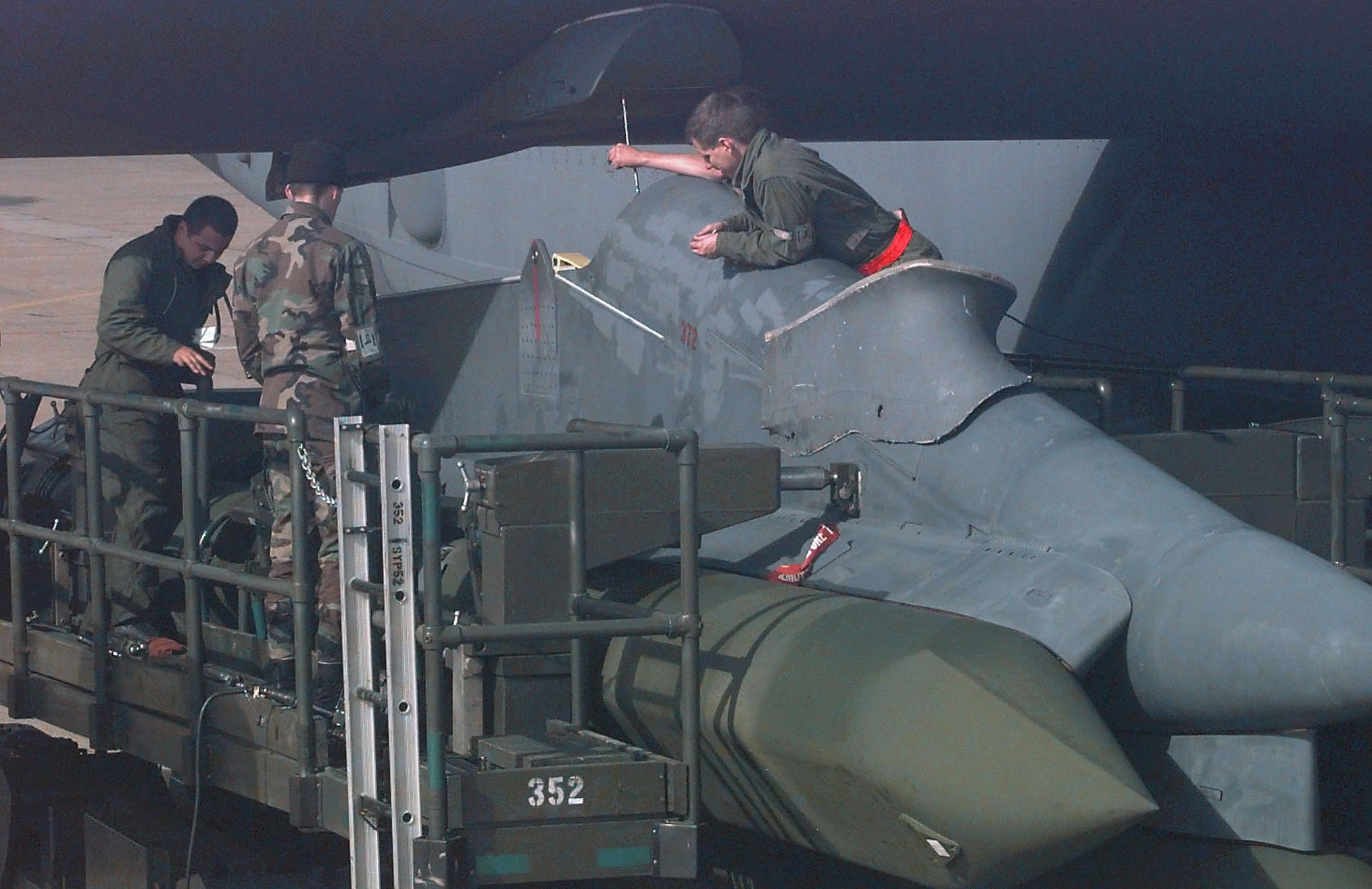 Some AGM-129 ACM cruise missiles get loaded onto a B-52 Stratofortress